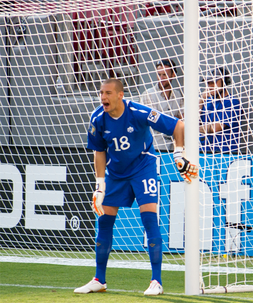 Goalkeeper Milan Borjan of the Canadian national team. By the author, June 11, 2011. Released into the public domain.